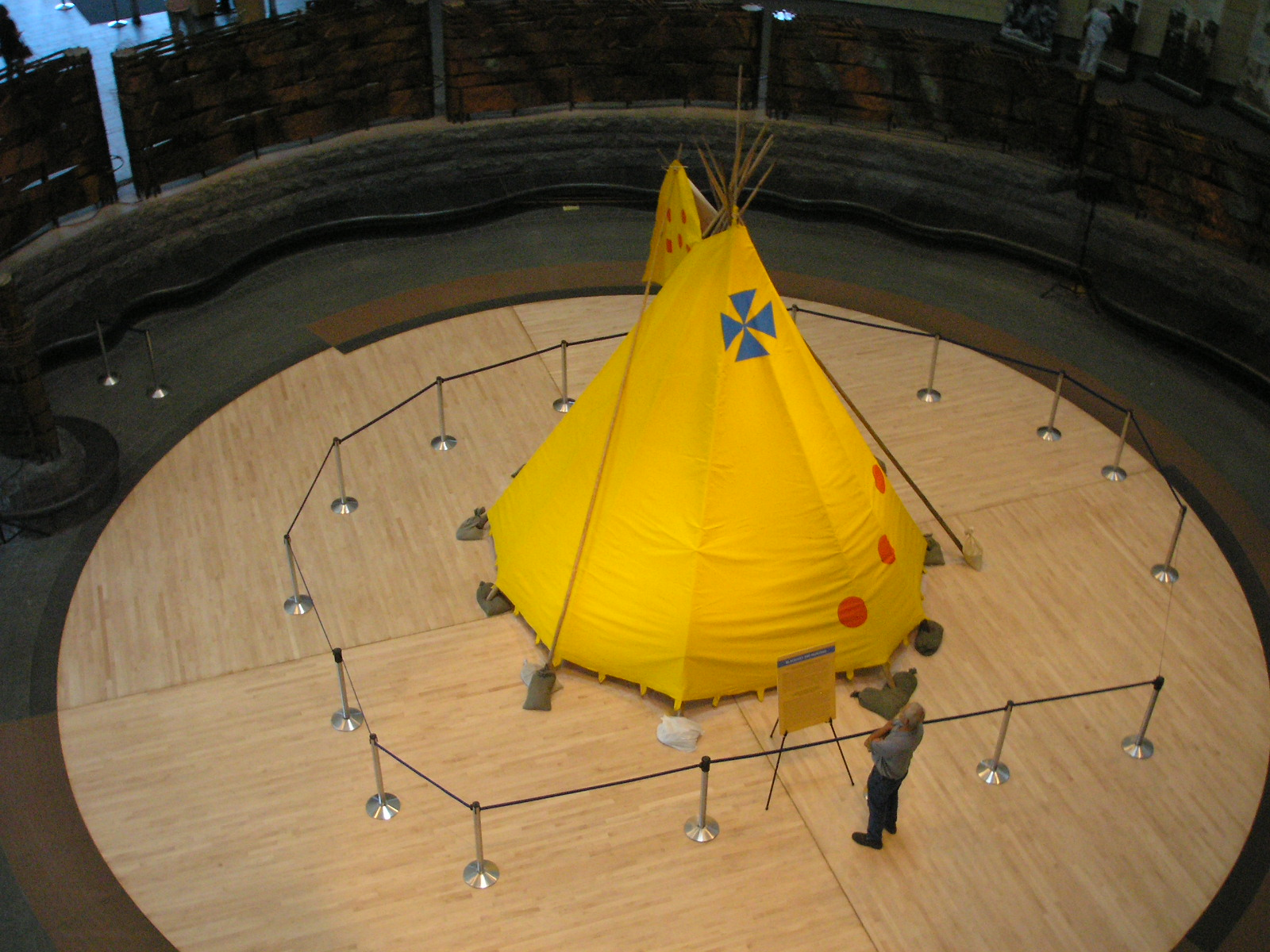 tipi by the Blackfeet (Pikuni) Nation, shown in the National Museum of the American Indian, Washington, D.C..